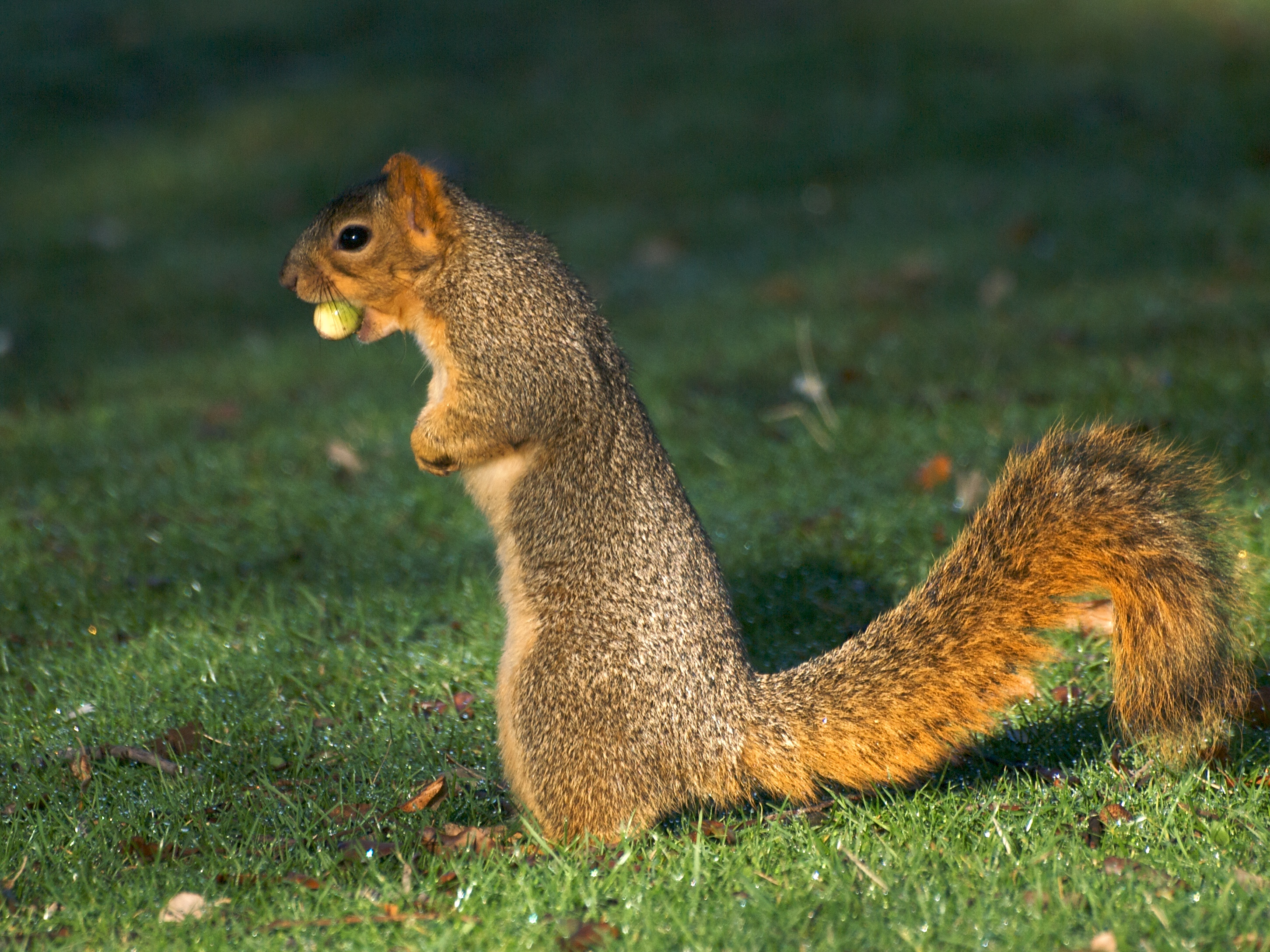 Lots of acorns this year, lots of squirrels.